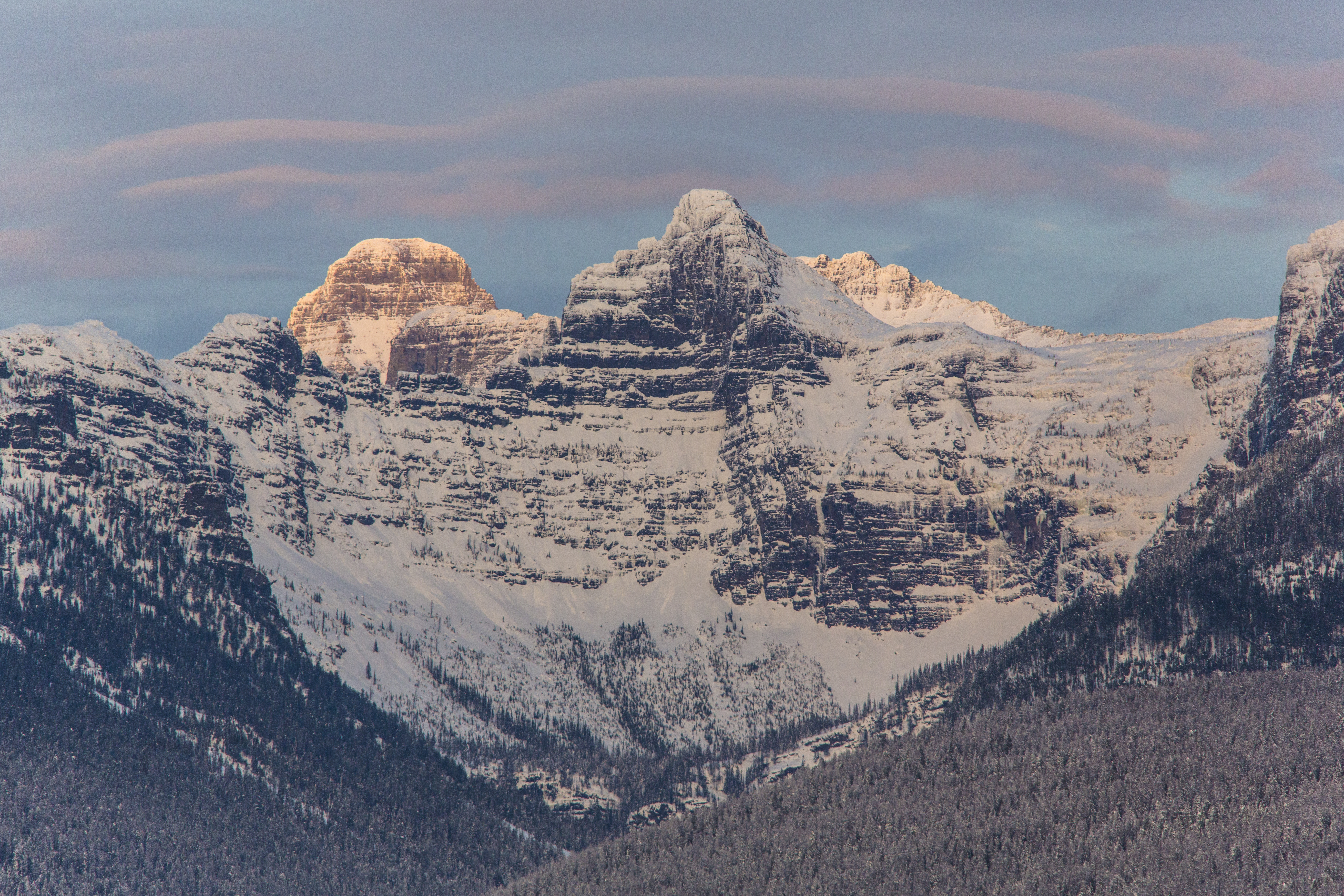 The view from Lake McDonald (Glacier National Park, Montana) includes a few of classic glacier landforms such as a steep-walled arête and several sharp, pointed horns.